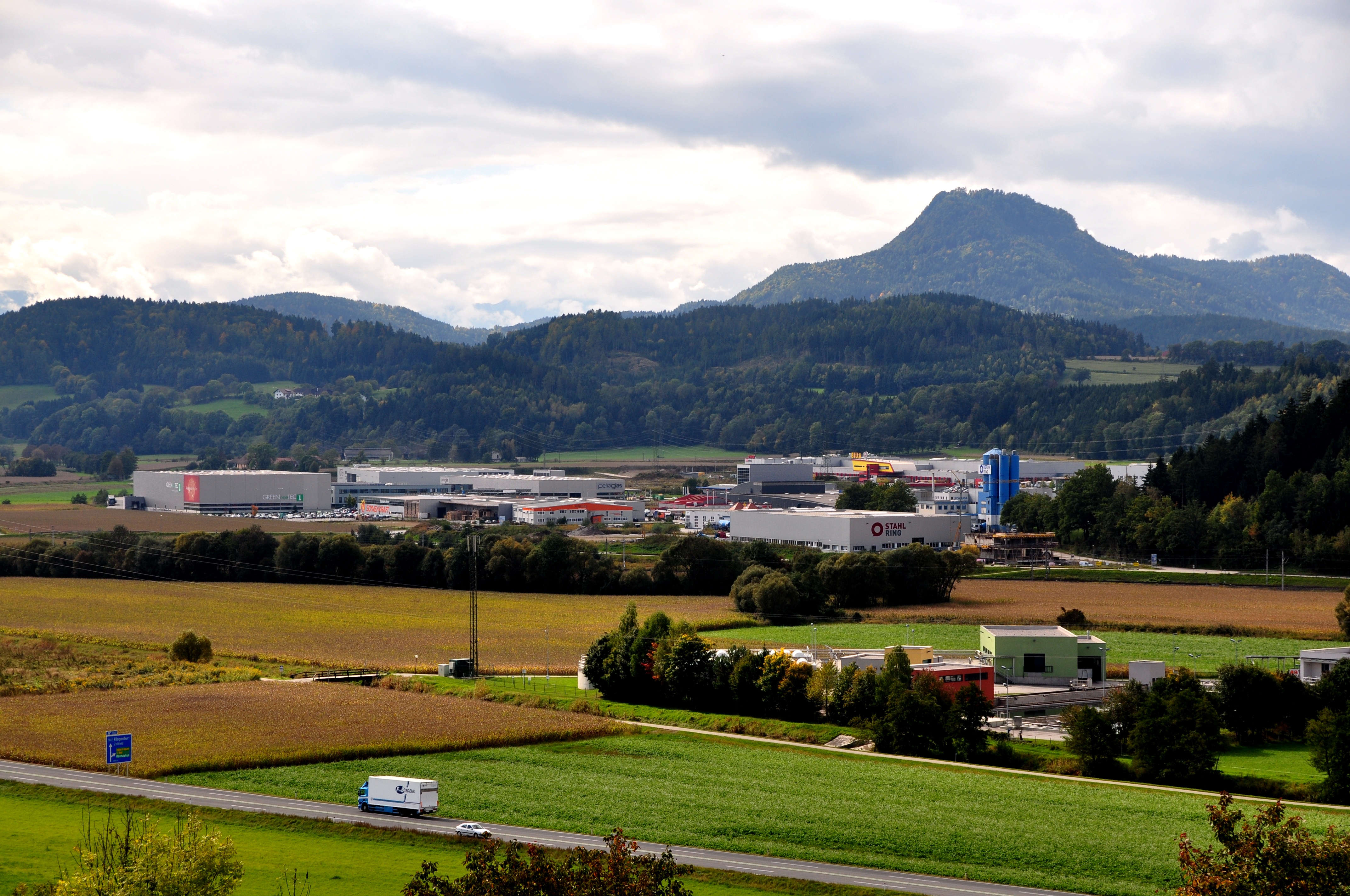 Industrial park at Blintendorf and in the background the mountain Ulrichsberg, situated in the municipality Sankt Veit an der Glan, district Sankt Veit an der Glan, Carinthia, Austria